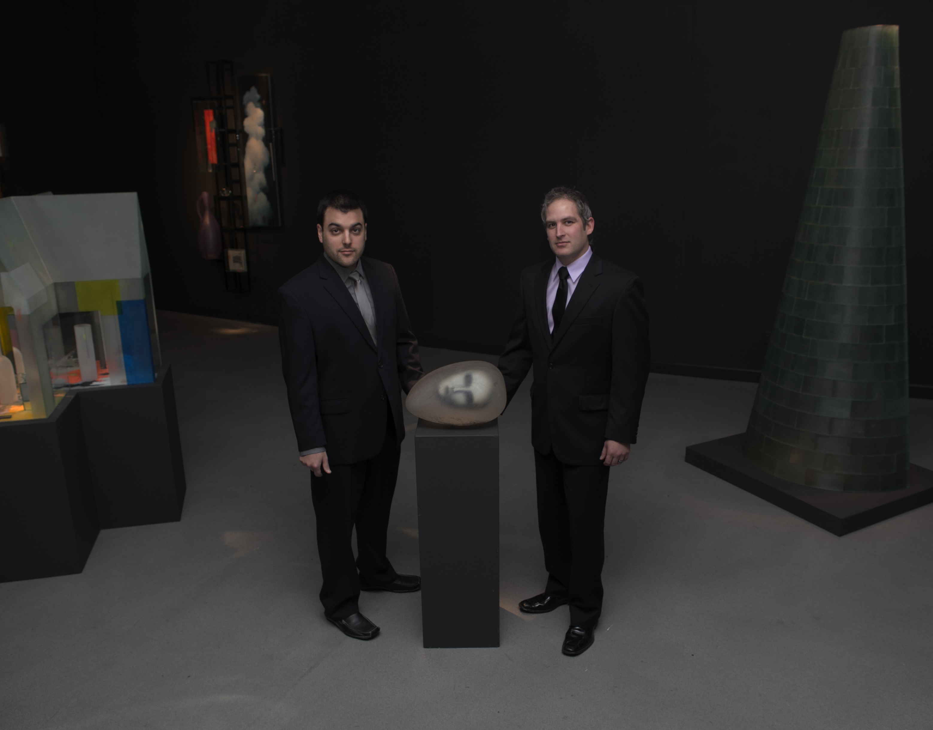 Corey Hampson (on right) at Habatat Galleries in Royal Oak, Michigan